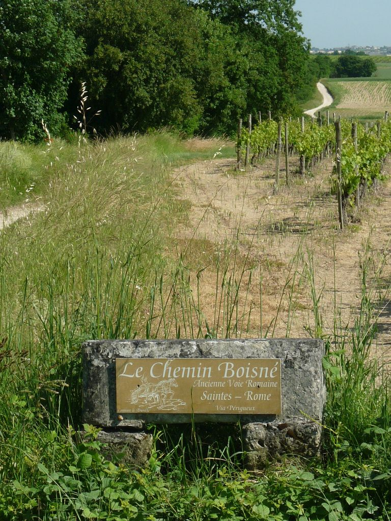 old roman way Périgueux-Saintes at Birac, Charente, France